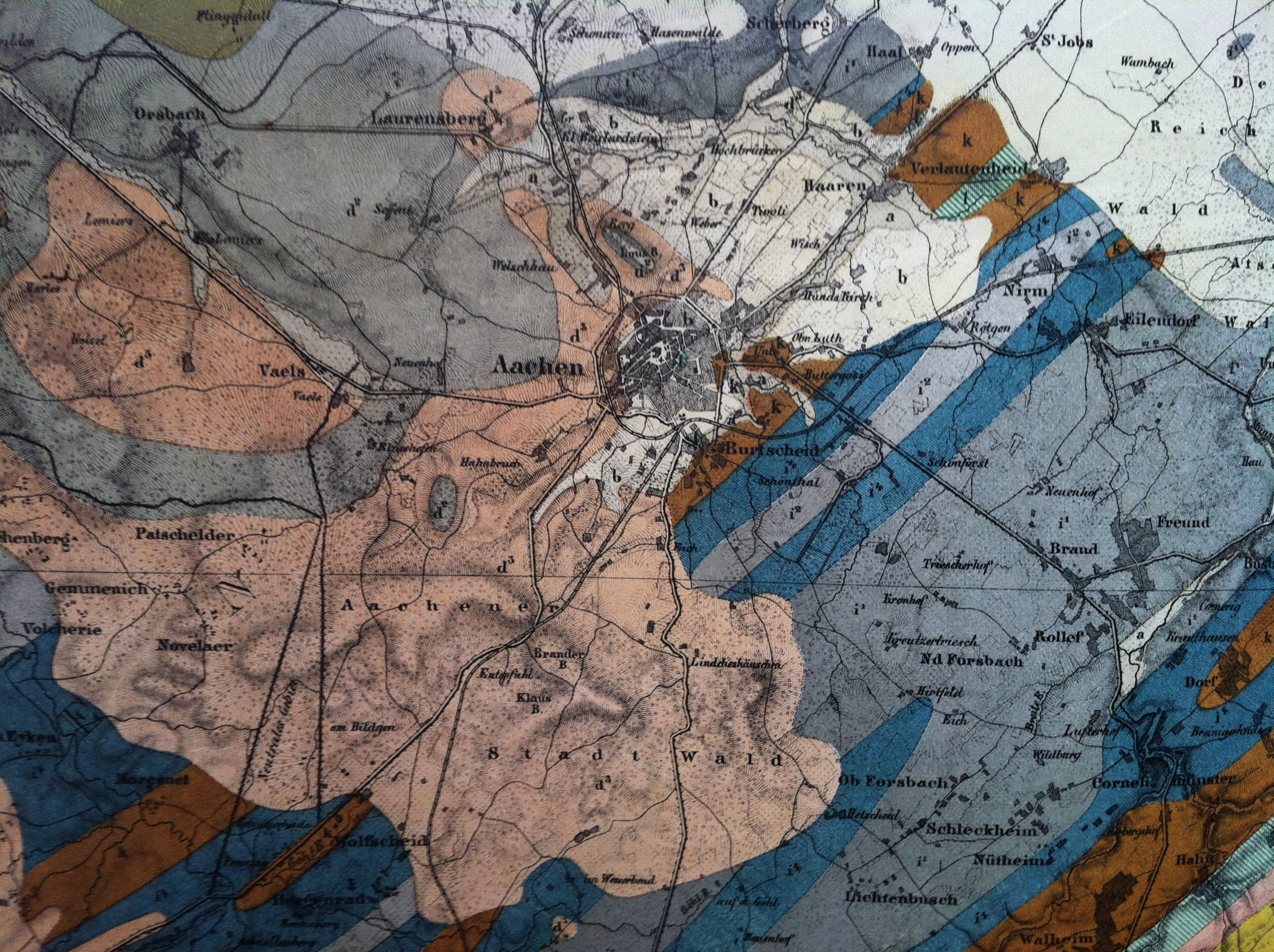 Geognostic Map of the Rhineland, Sec. Aachen by Heinrich von Dechen (detail), scale 1:80000